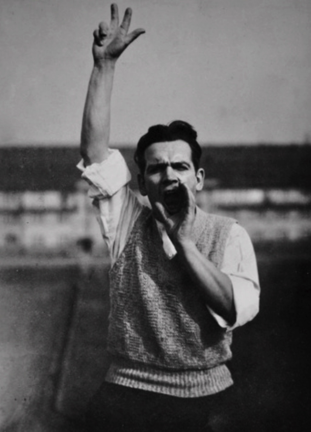 Hannes Maria Flach (1901–1936) was a German photographer, photo artist and photo journalist. This self-portrait with a Leica shows him as caller.